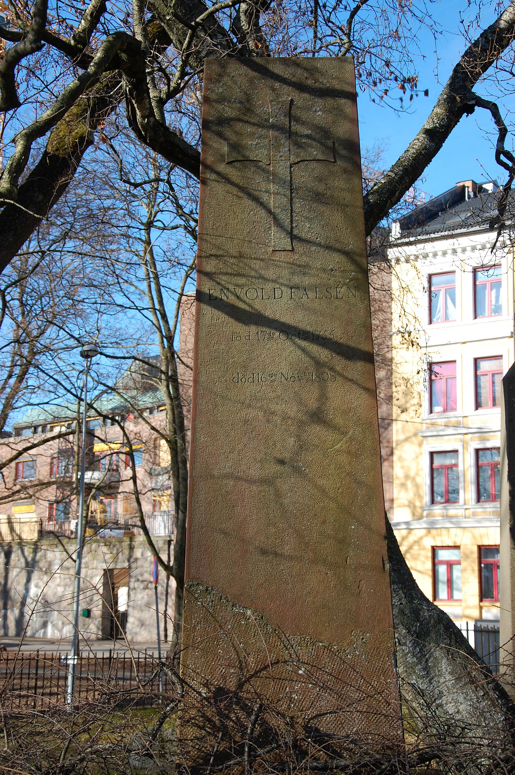 Enevold de Falsen (1755—1808), gravestone at Gamle Aker kirkegård in Oslo.